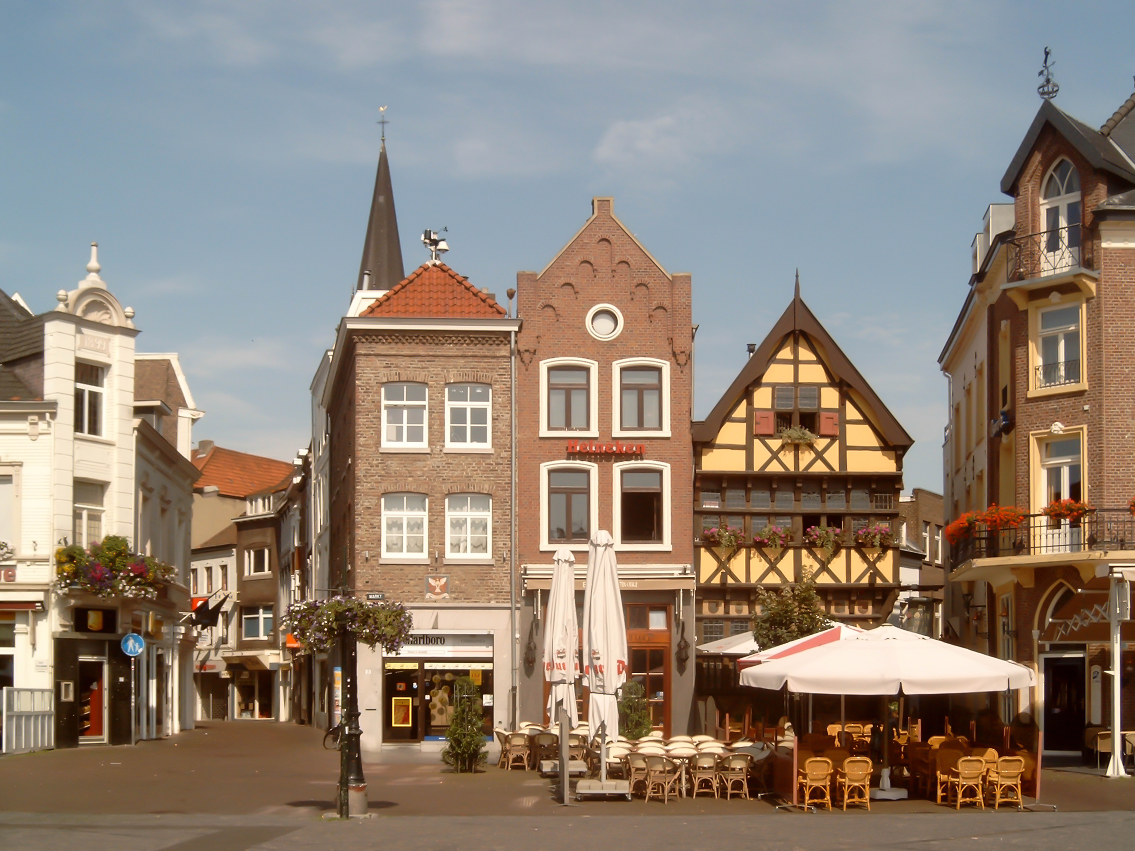 Sittard, monumental houses on square